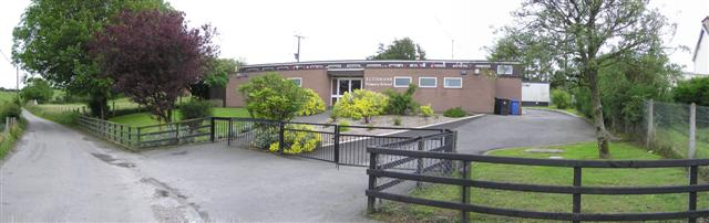 Altishane Primary School. Ruth Kelly, Minister for Education, came here to visit her relatives last year.